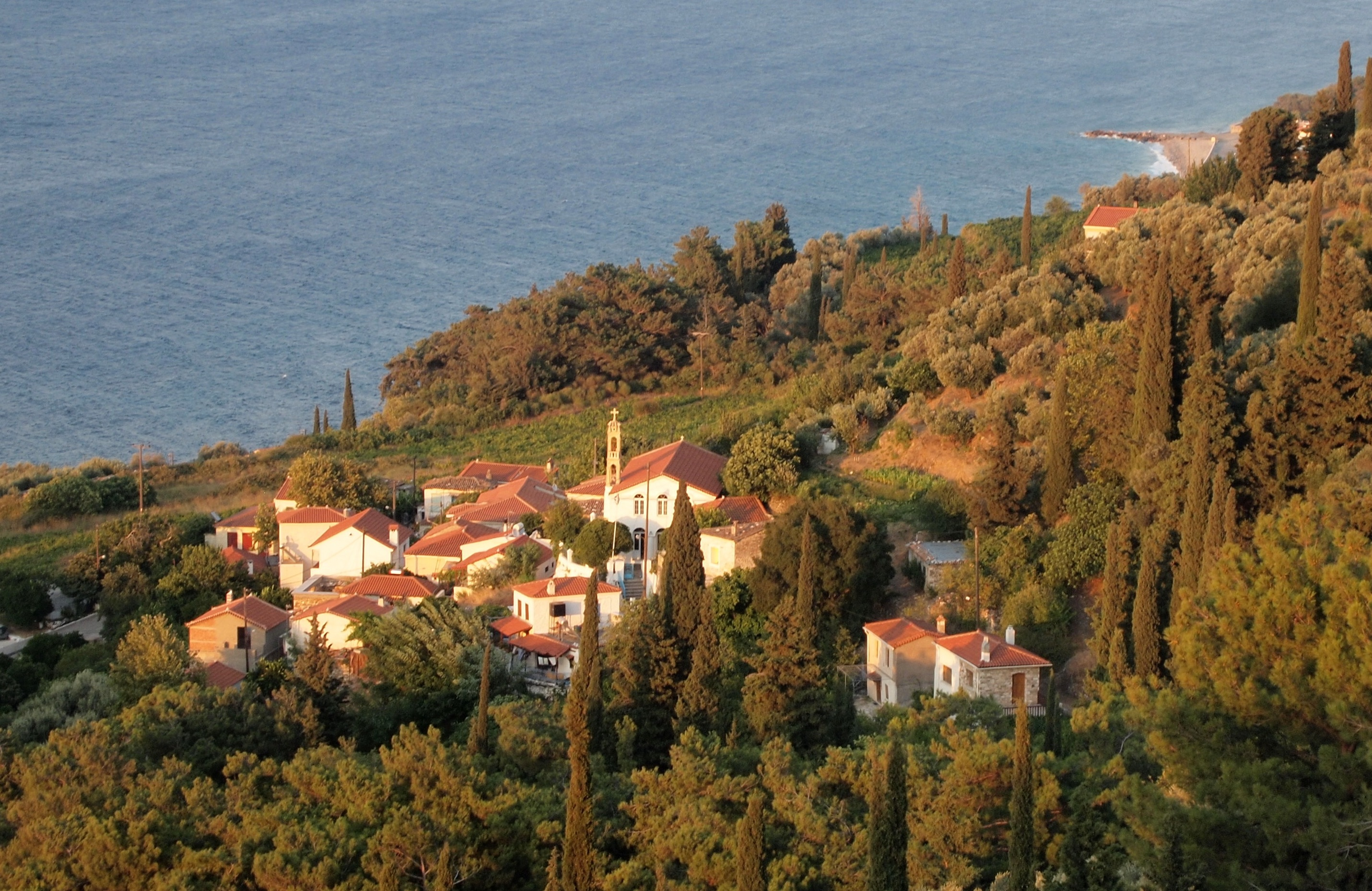 The village of Ano (Upper) Agios (Saint) Konstantinos, Samos, Greece